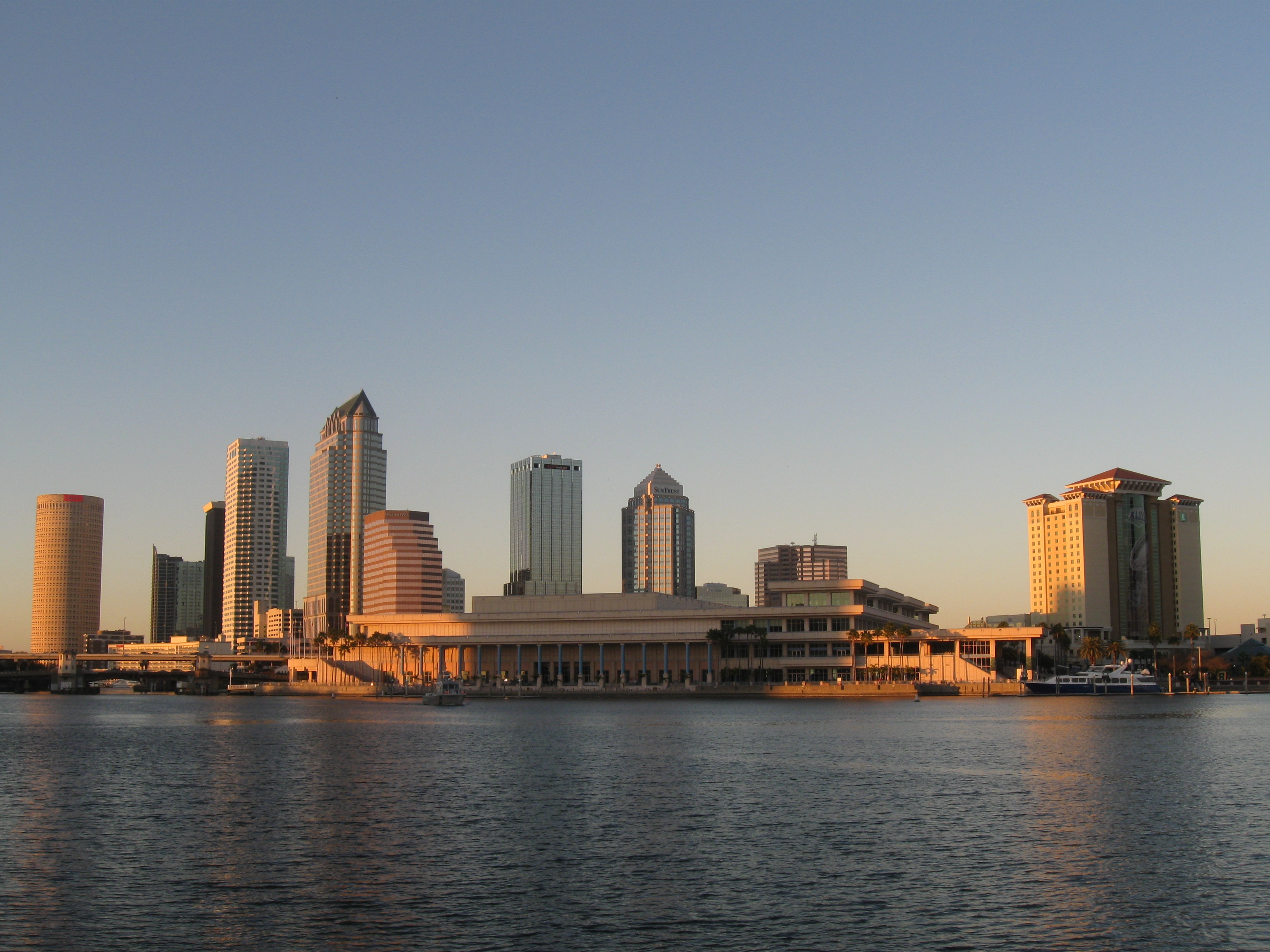 Tampa skyline